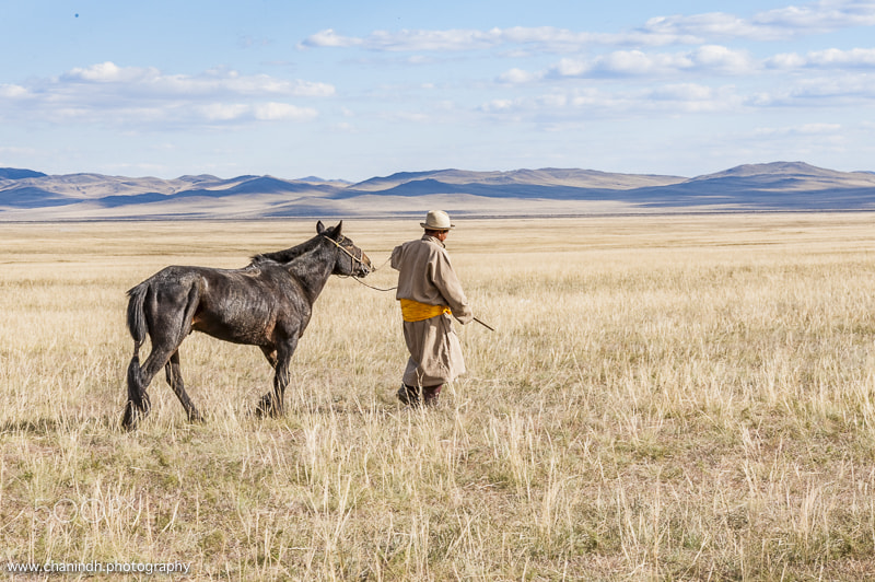 500px provided description: Man leading his horse across the Mongolian Steppes [#Mongolia ,#Gun-Galuut Nature Reserve]